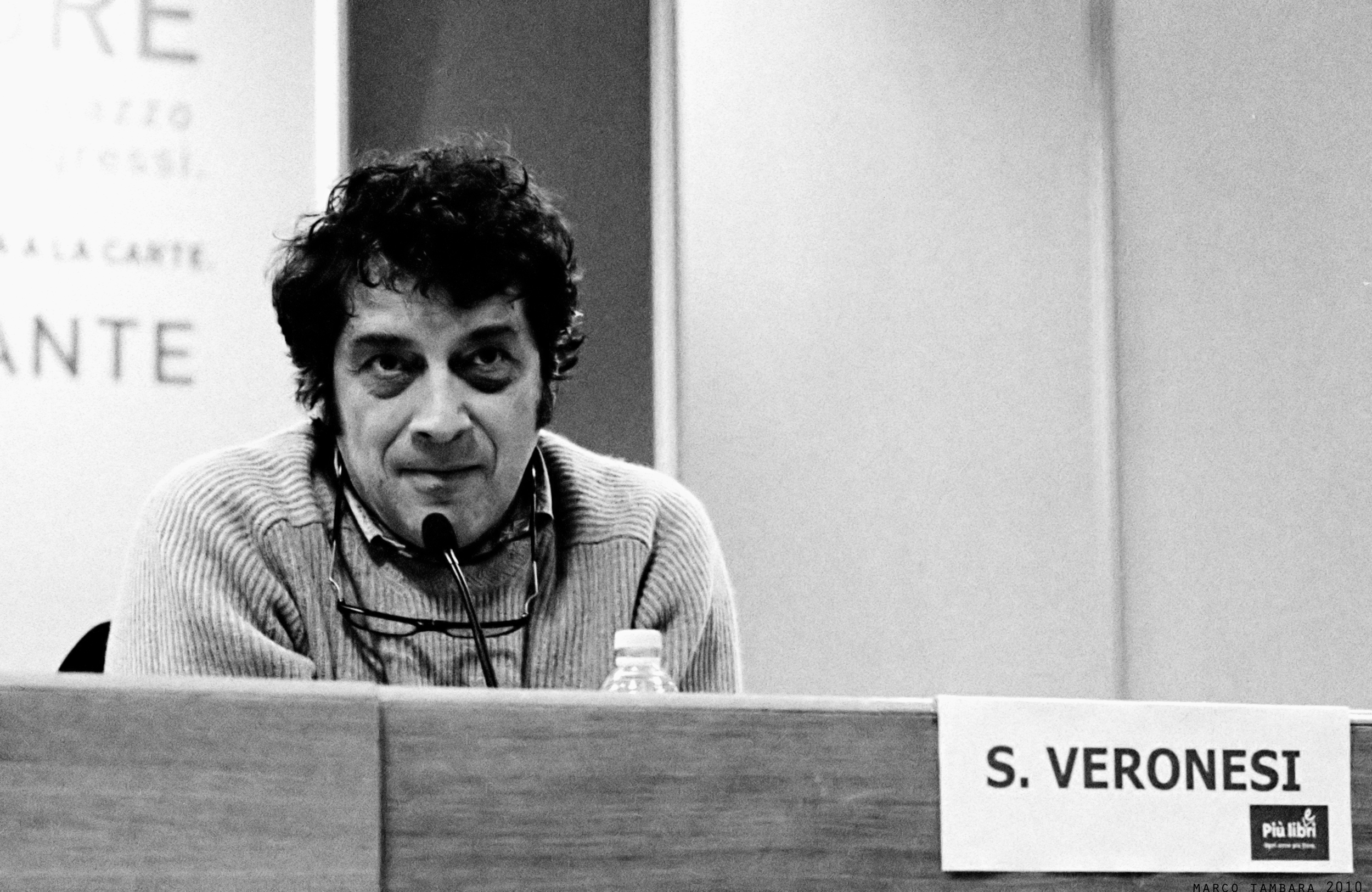 Italian novelist, essayist, and journalist Sandro Veronesi presents his book XY to the public, Rome, December 4, 2010.